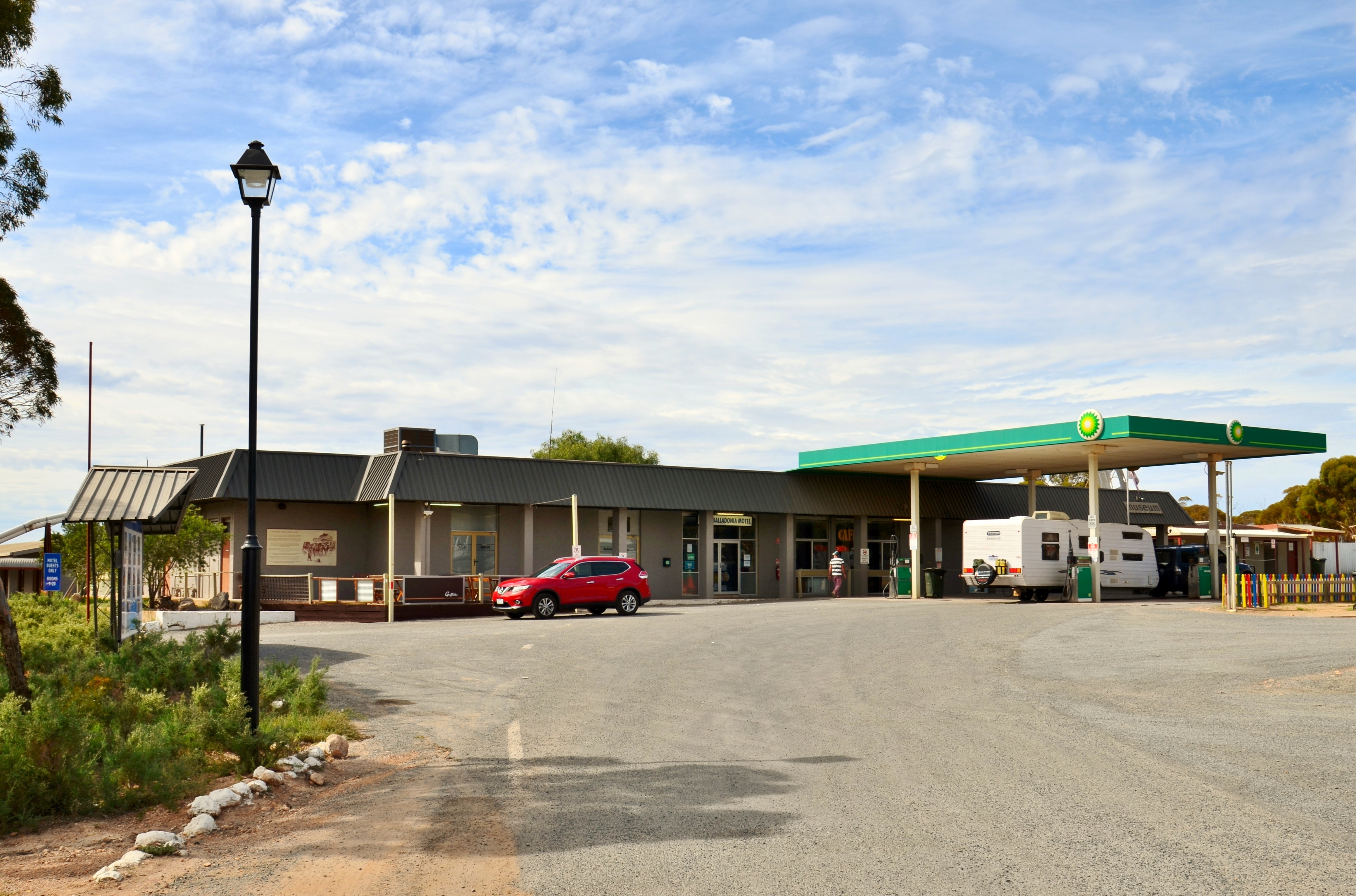 View of the roadhouse at Balladonia, Western Australia